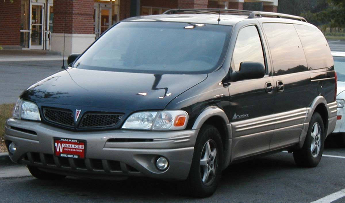 2002-2005 Pontiac Montana photographed in USA.